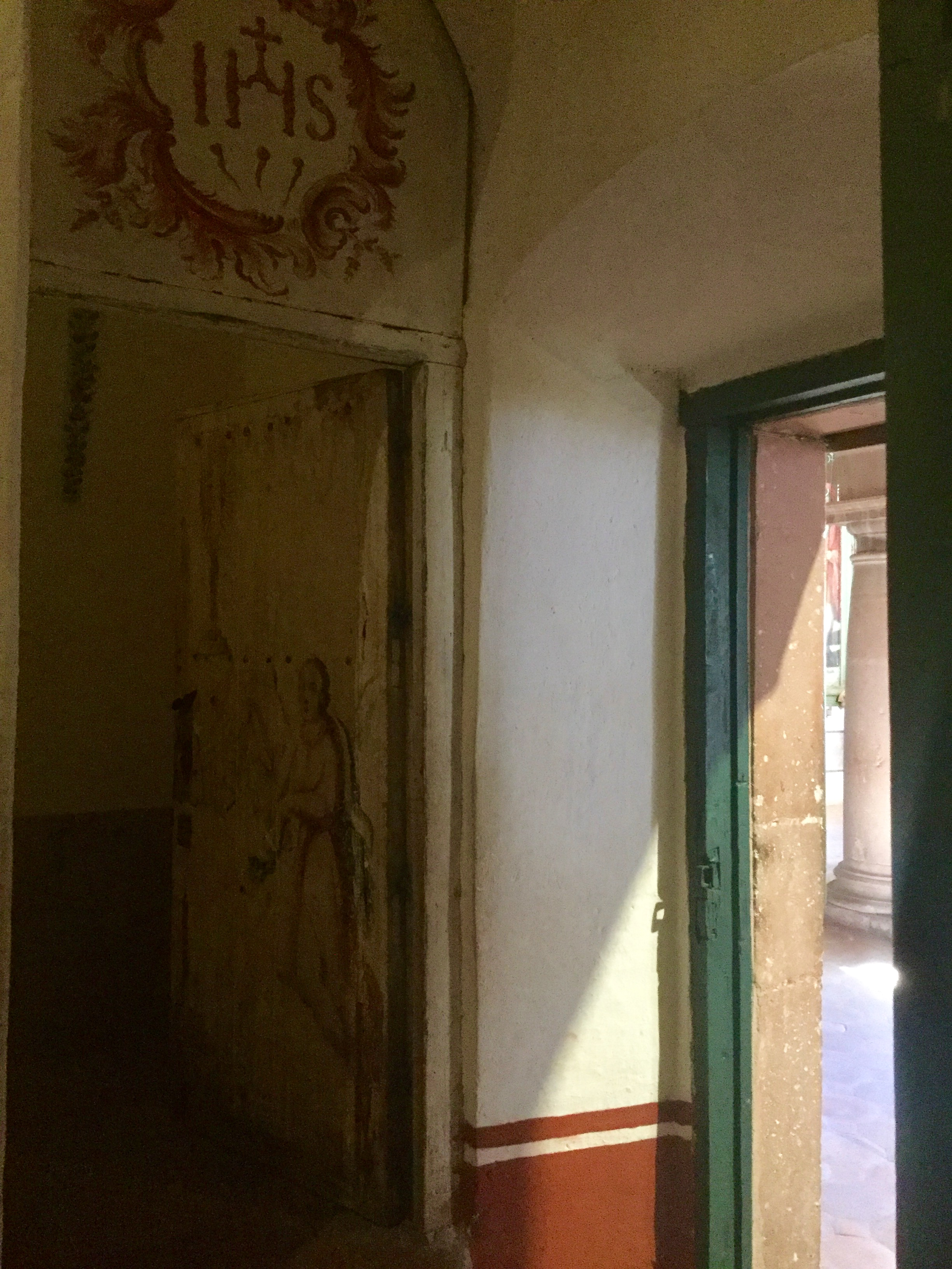 Entrada al salón de filosofía